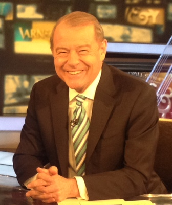 Stuart Varney on the set of his Fox Business television program Varney & Co.